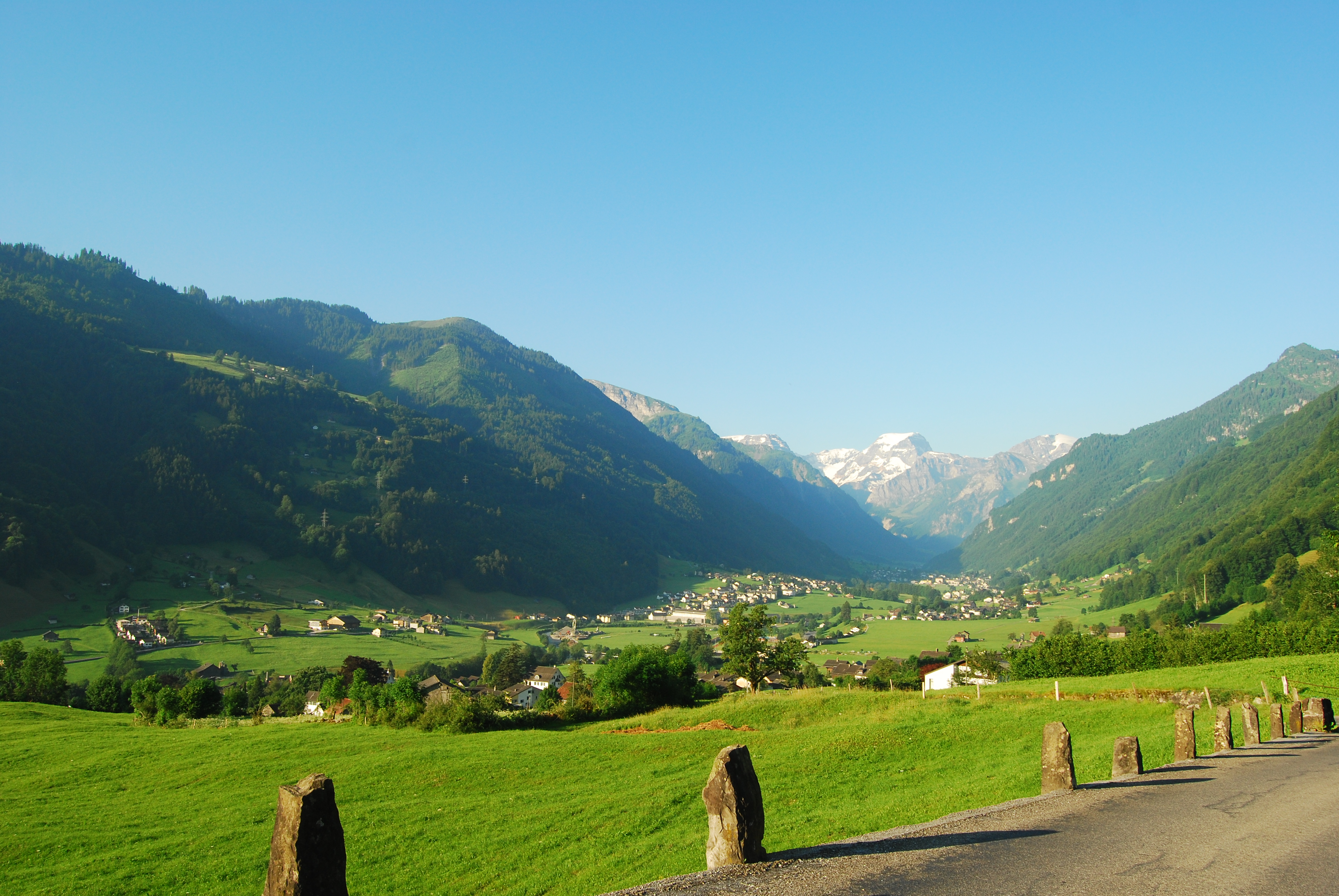 View from Schwändi to the upper valley of Linth with Haslen and Luchsingen and Tödi at the back, canton of Glarus, Switzerland